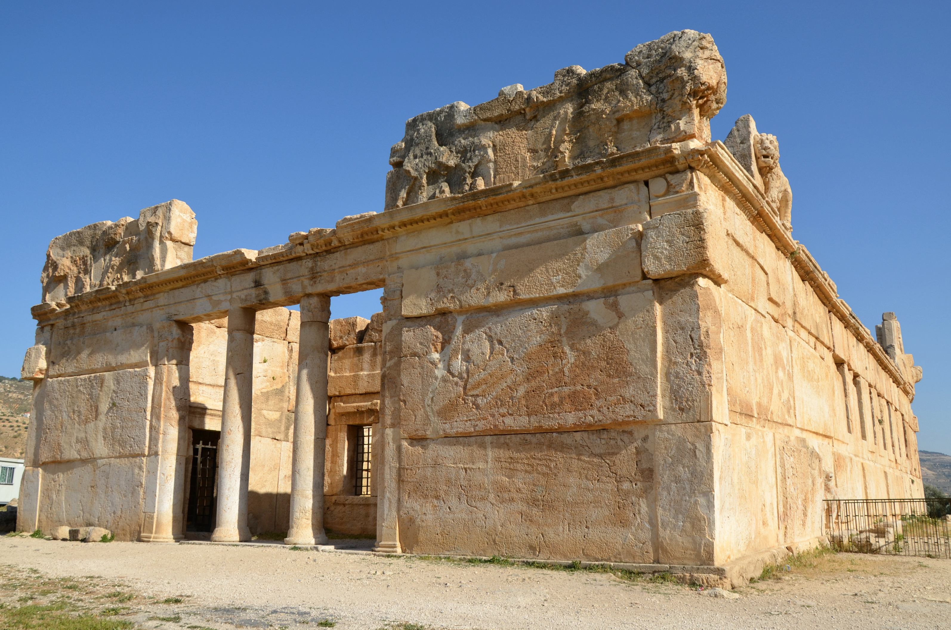 Qasr Al-Abd, Hellenistic palace dating from approximately 200 BC, Jordan